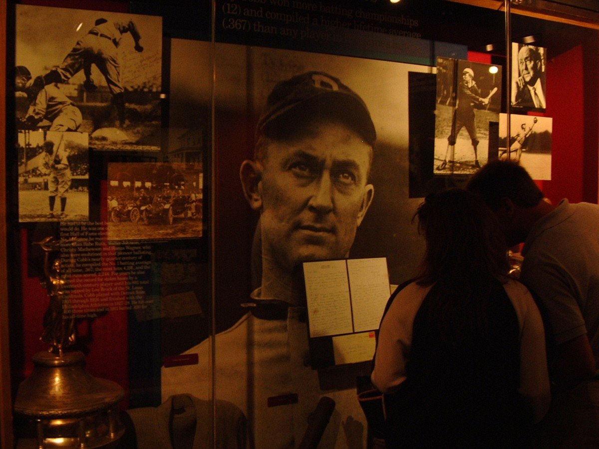 The window of Ty Cobb at Cooperstown